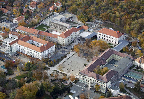 City Center of Balatonfüred, Hungary, aerial photography